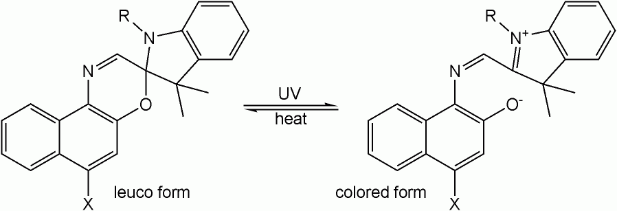 Description: Photochromism, an example of a dye structure transition Author, date of creation: selfmade by Shaddack, 1 January 2006 Source: self-made, adapted from Copyright: Public Domain (PD) Comments: b/w hires PNG; ChemDraw